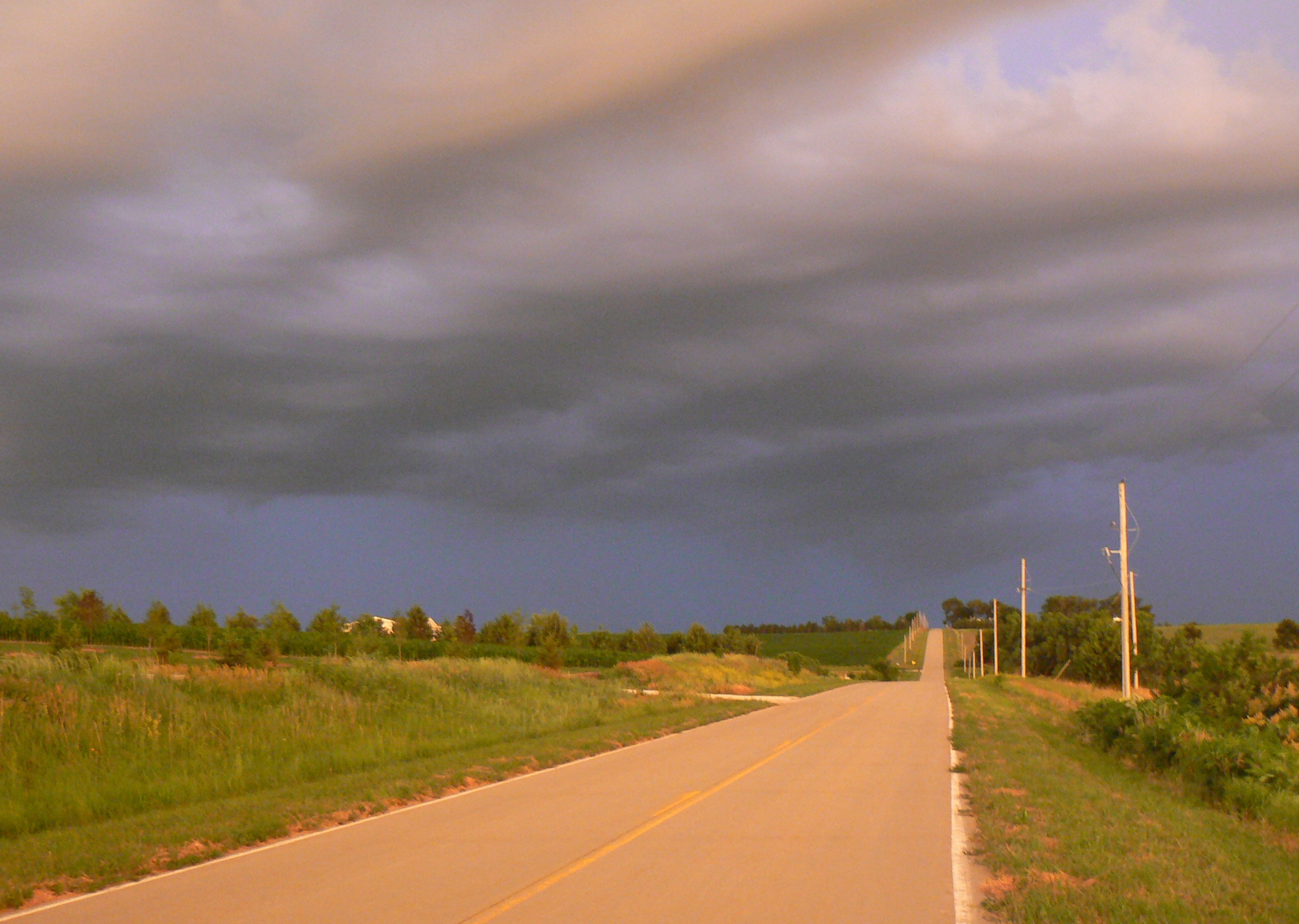 Clouds over a country road in Cass County Nebraska